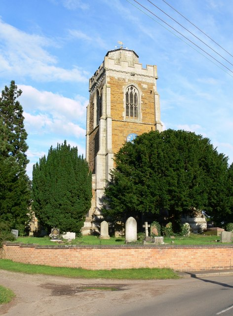 All Saints' Church, Beeby, Leicestershire, Great Britain [1]